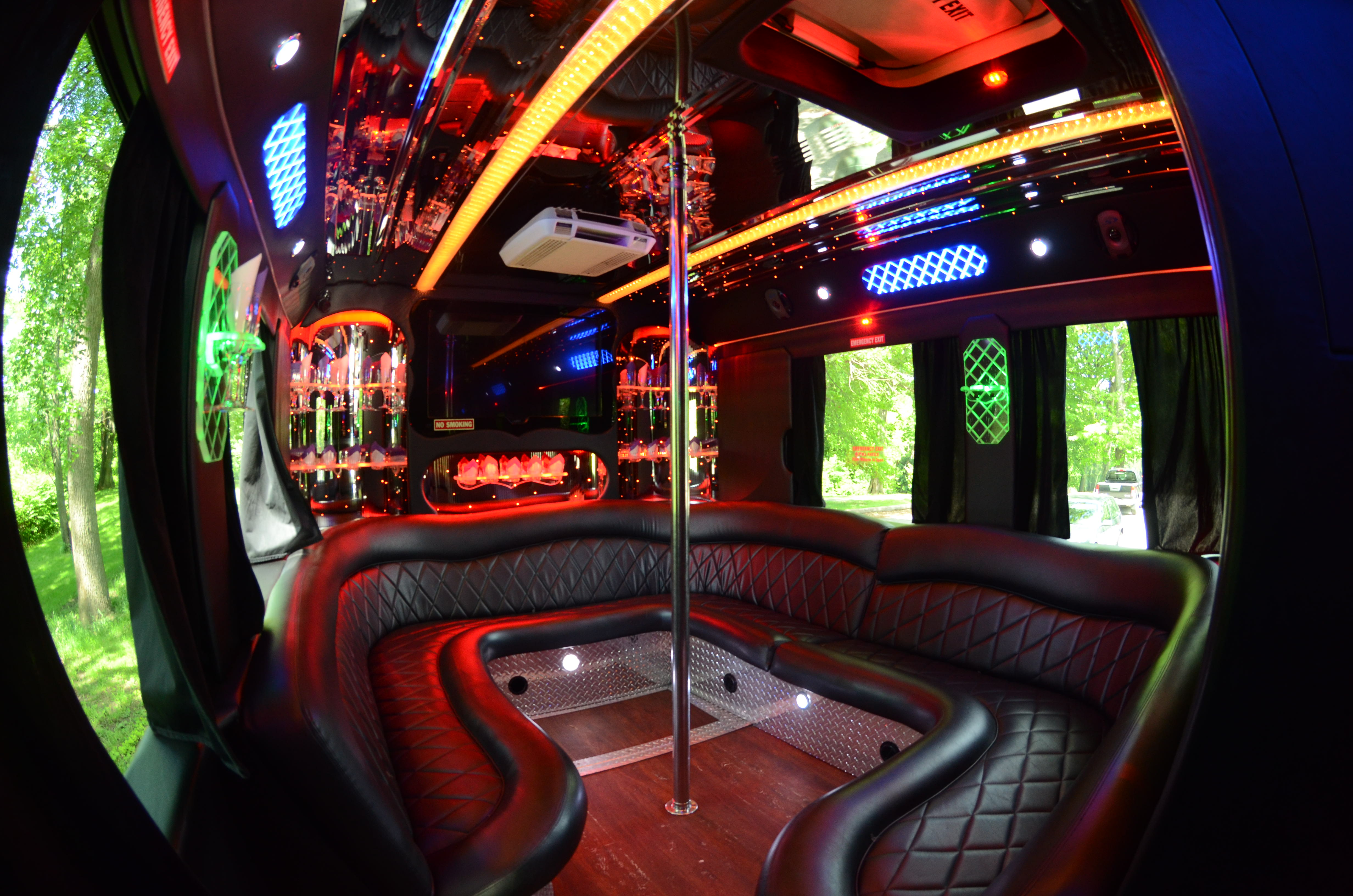 42 Passenger Party Bus Interior